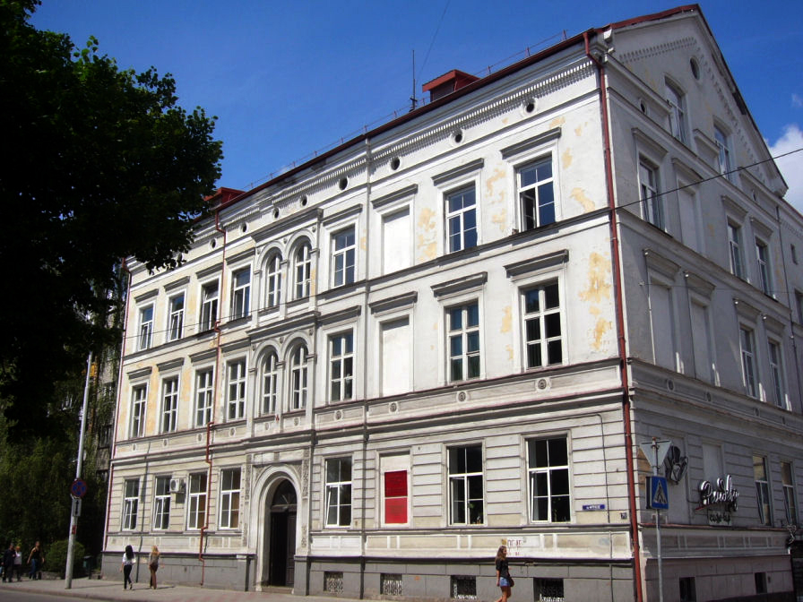 Leningradsky district administration in Kaliningrad, Russia